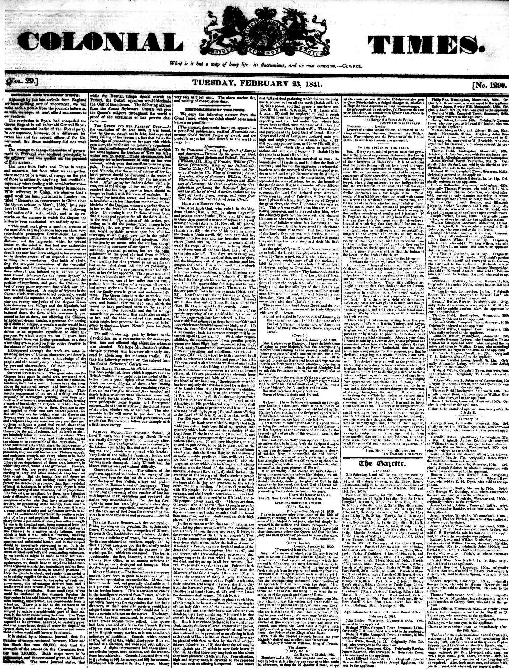 Memorandum to Protestant Monarchs of Europe for the restoration of the Jews to Palestine, Colonial Times 1841